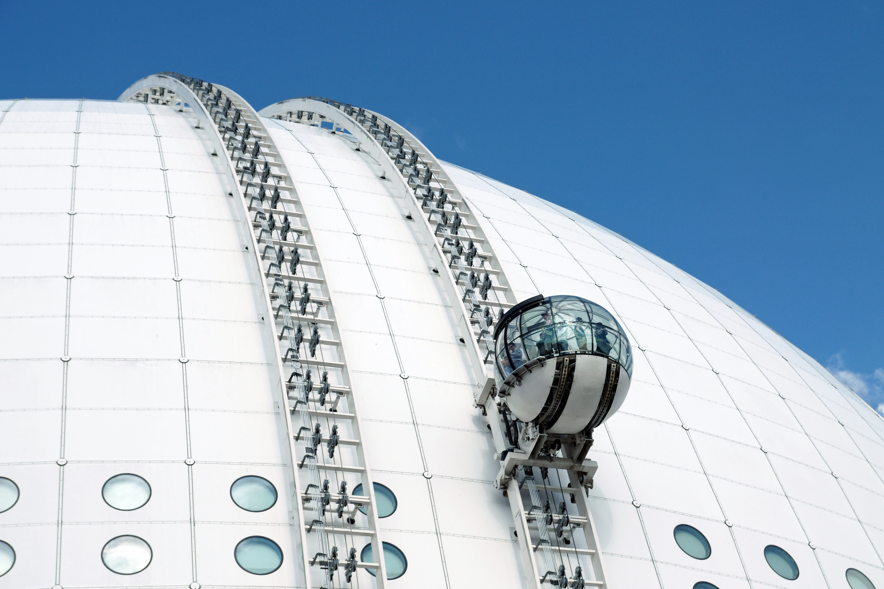 Gondola lift, "SkyView", on the south side of the Ericsson Globe, Stockholm.